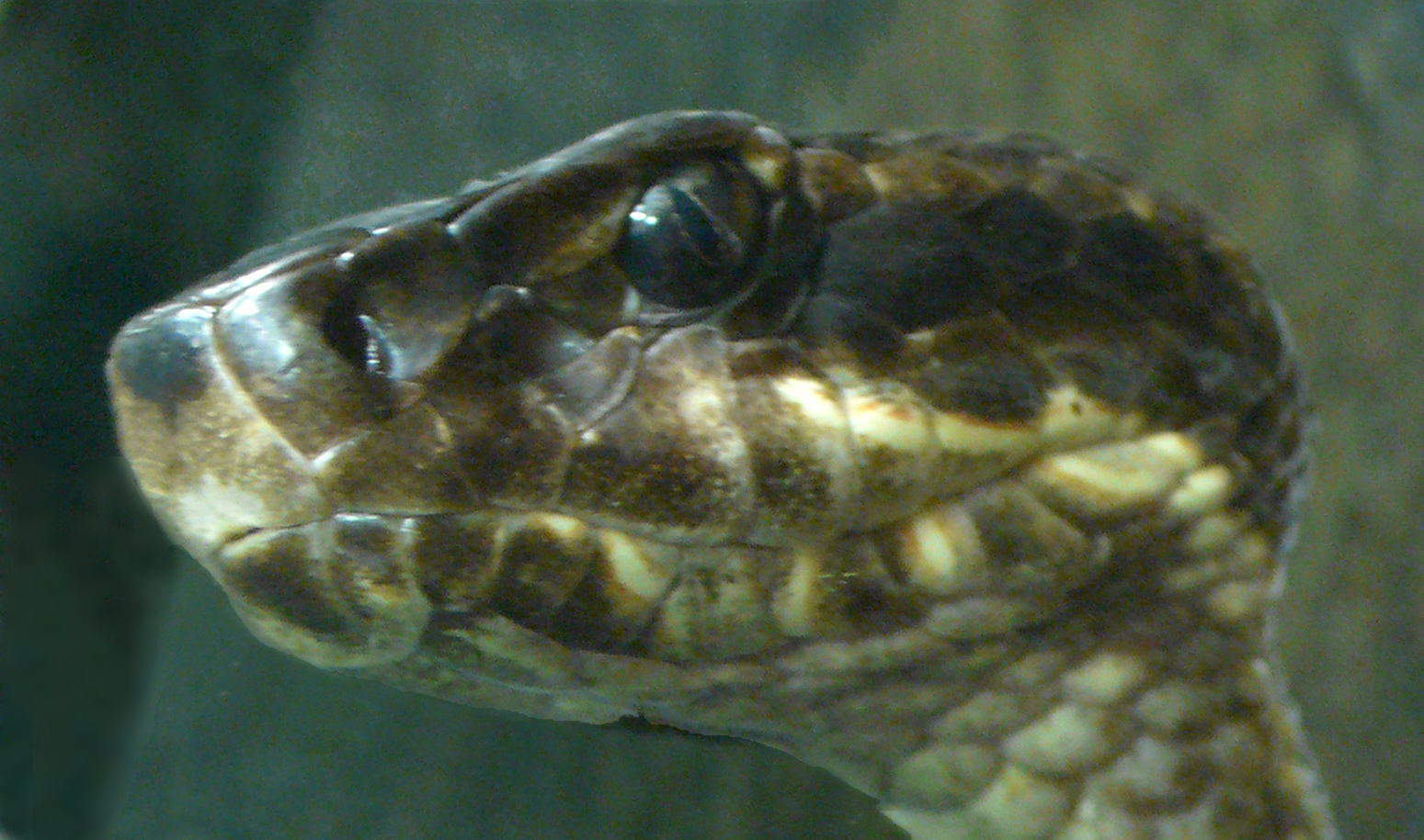 Cottonmouth (Agkistrodon piscivorus leucostoma)